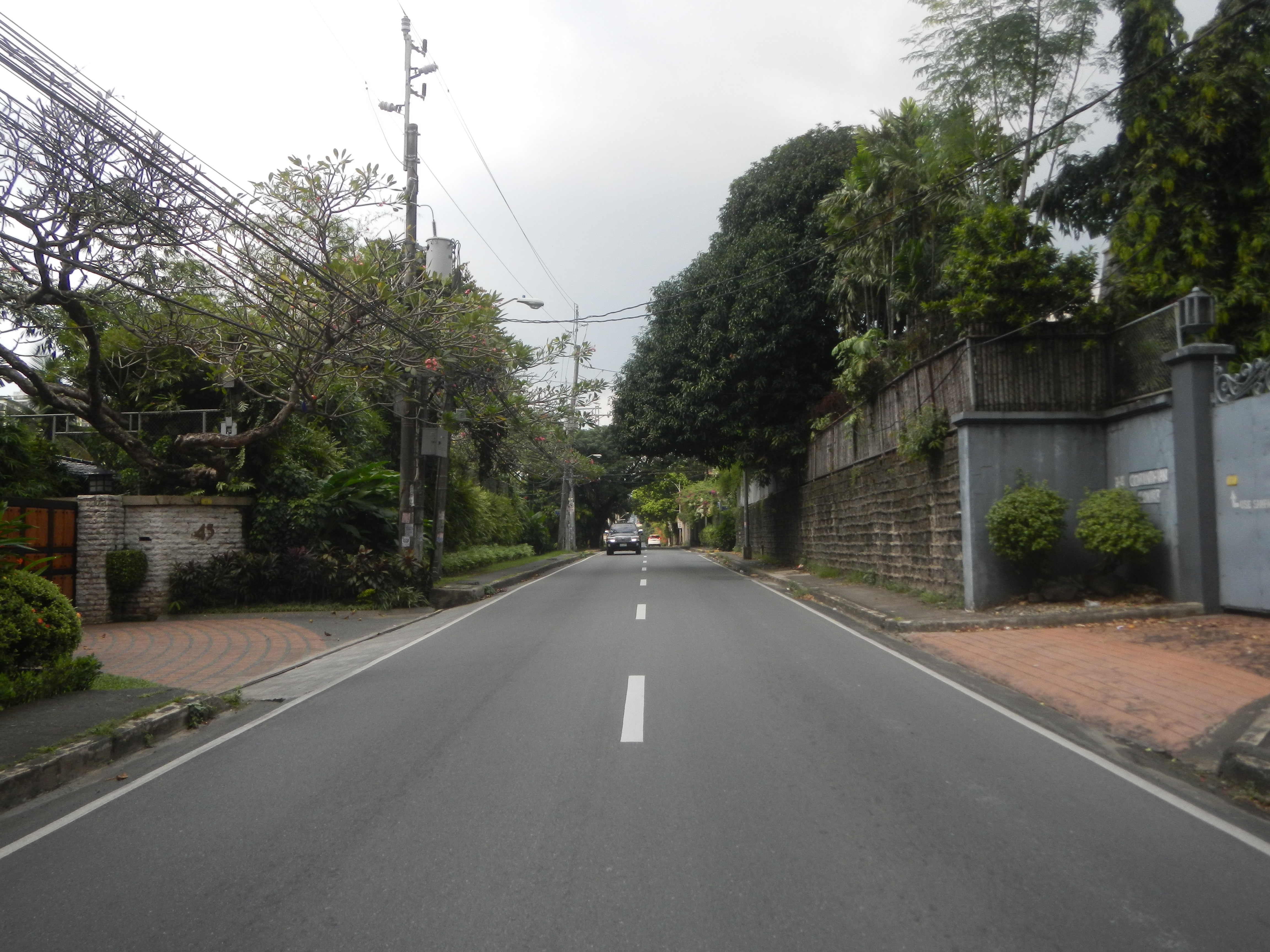 Balete Drive (E. Rodriguez, Sr. Avenue - Bouganvilla Street), Mariana, New Manila, Quezon City in front of Balete Drive Extension Balete Drive Haunted highway List of haunted locations in the Philippines Major roads in Metro Manila in the List of barangays of Metro Manila Legislative districts of Quezon City Districts 3, Barangays of Quezon City, Barangay Kristong Hari 14°37'28"N 121°1'31"E beside Mariana 14°37'1"N 121°2'13"E New Manila, Quezon City upon the List of rivers and estuaries in Metro Manila Diliman Creek from San Juan River (Metro Manila) Estuaries in Cubao, Quezon City along Aurora Boulevard (Note: Judge Florentino Floro, the owner, to repeat, Donor Florentino Floro of all these photos hereby donate gratuitously, freely and unconditionally all these photos to and for Wikimedia Commons, exclusively, for public use of the public domain, and again without any condition whatsoever).